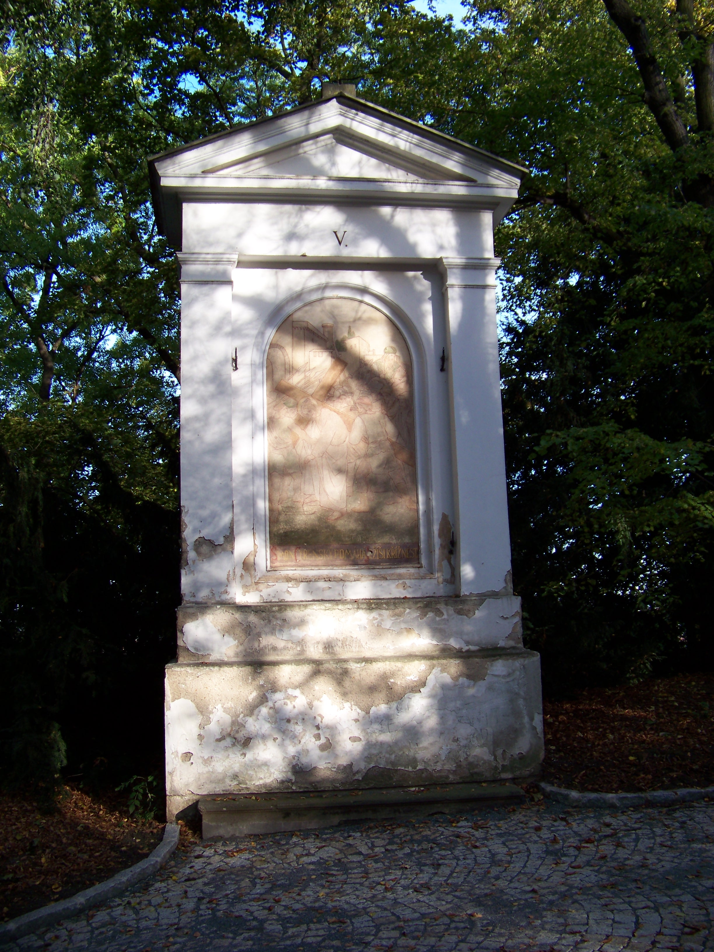 Prague-Malá Strana, the Czech Republic. Petřín hill, Petřín Park, Stations of the Cross, station V.